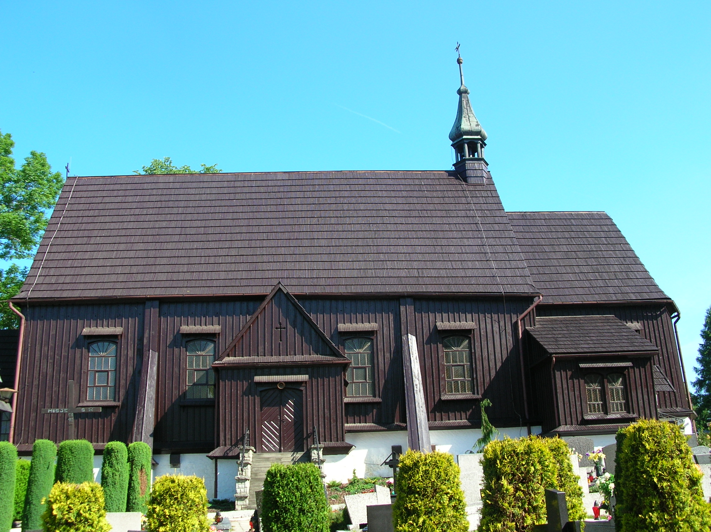 Church in Łąka (Silesia)